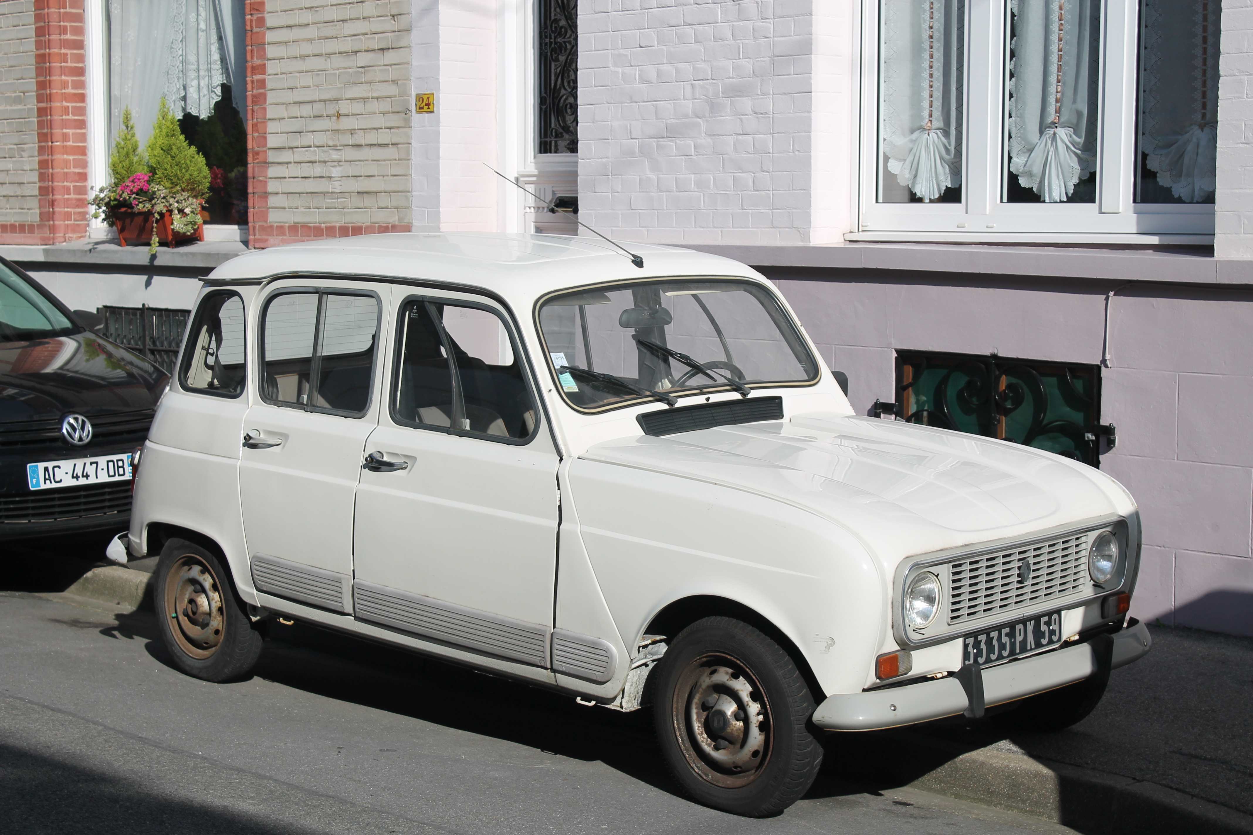 As expected, saw plenty of these, but not many had original plates like this one, which is my all time favourite number plate style. Nice and unmolested! 1986 plates.